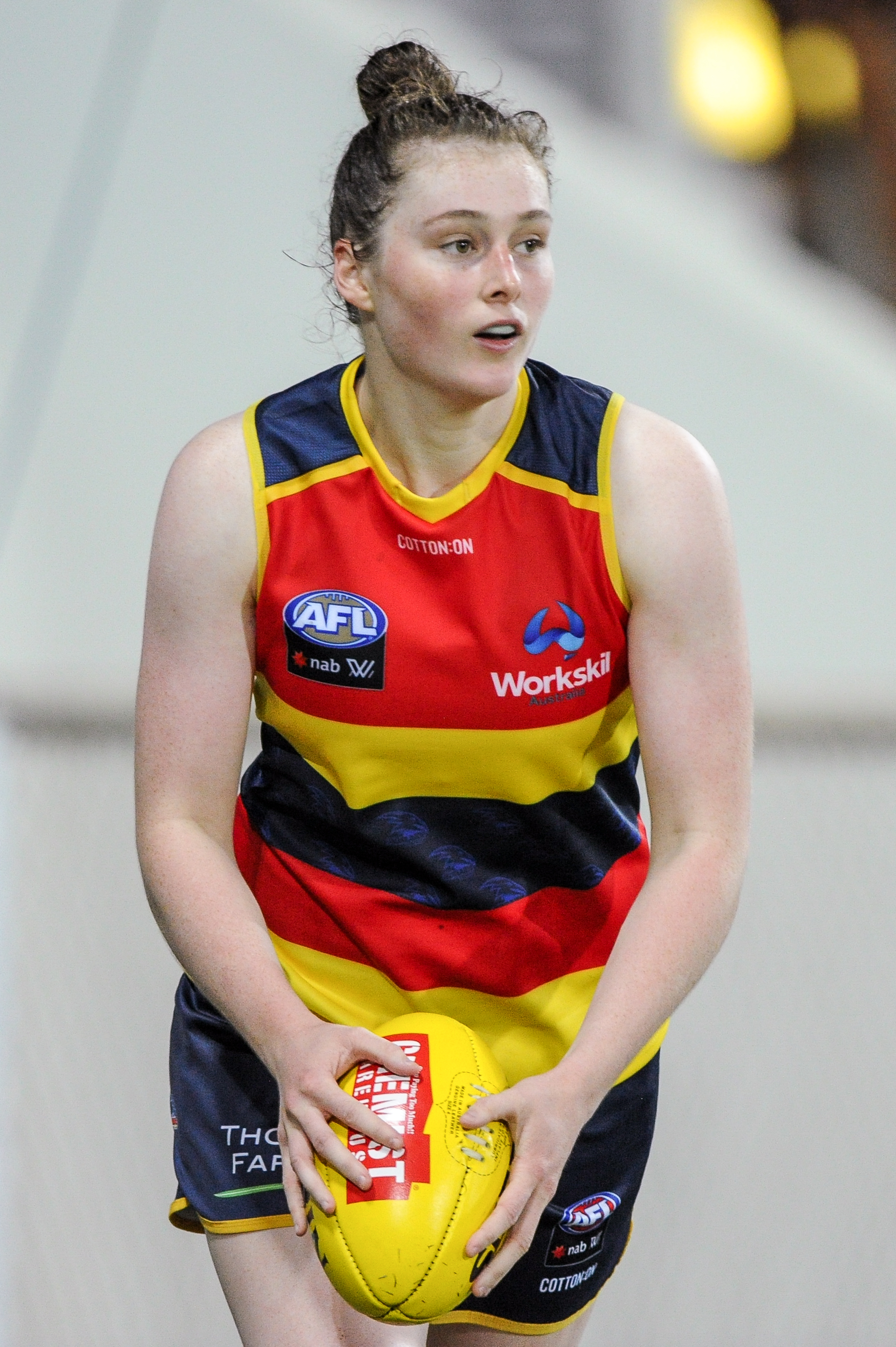 Sarah Allan in the AFL Women's preseason match between the Adelaide Football Club and Fremantle Football Club on 20 January 2018 at TIO Stadium.